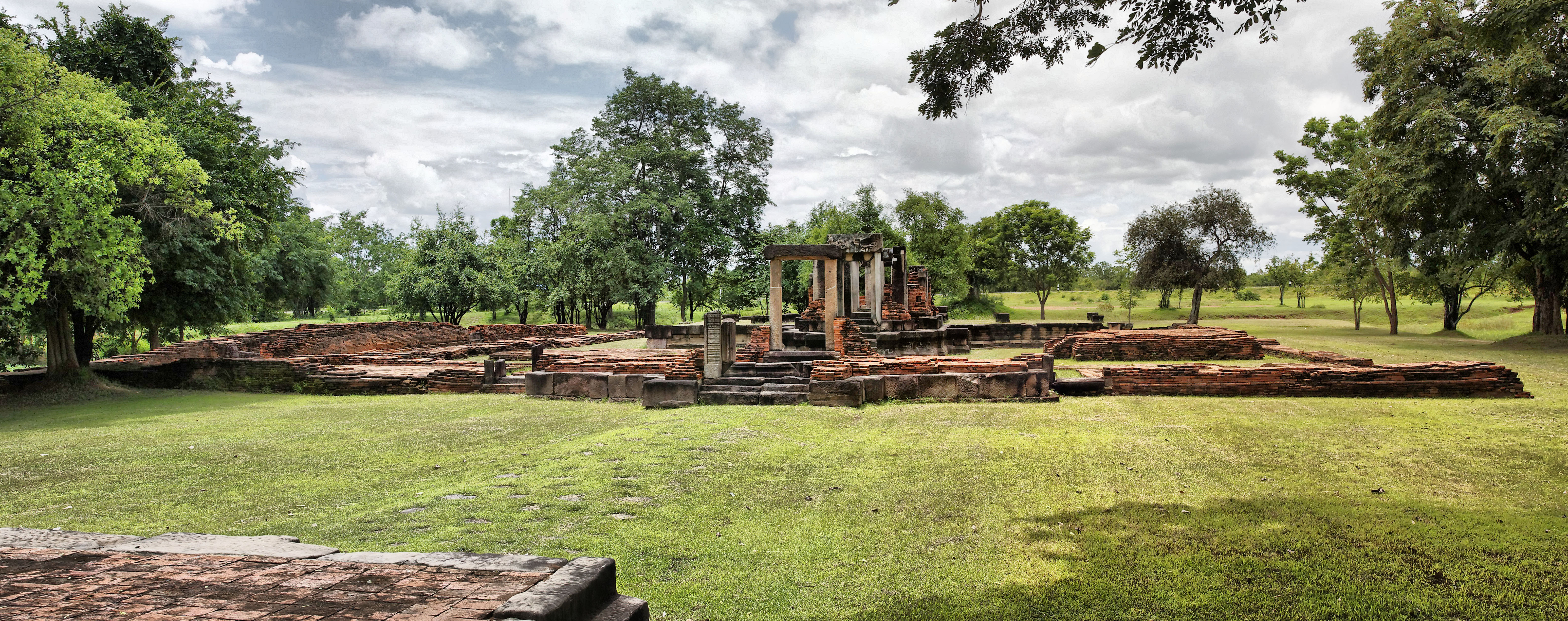 Prasat Muang Khaek, Thailand